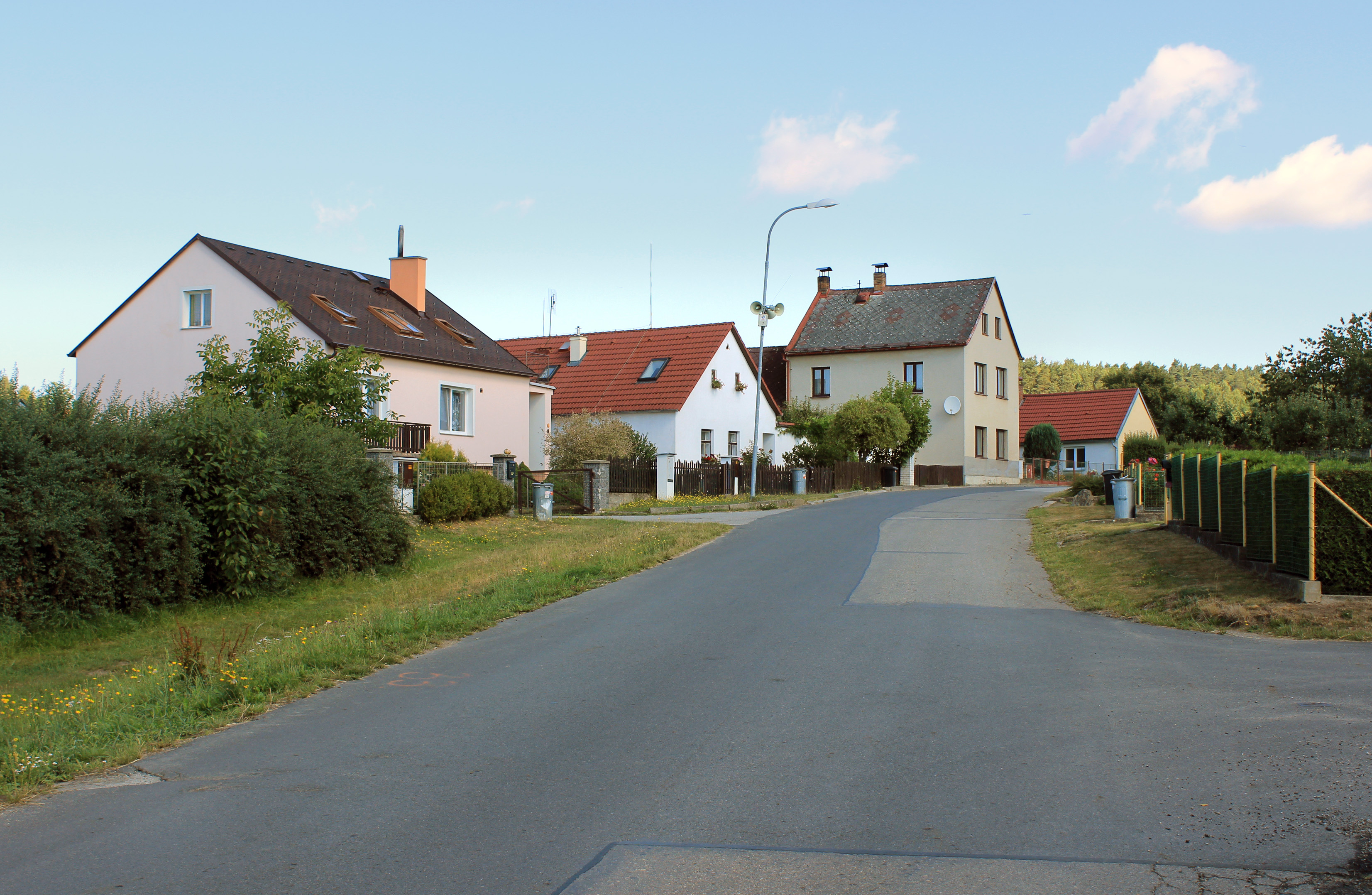 South part of Velký Ratmírov , Czech Republic.